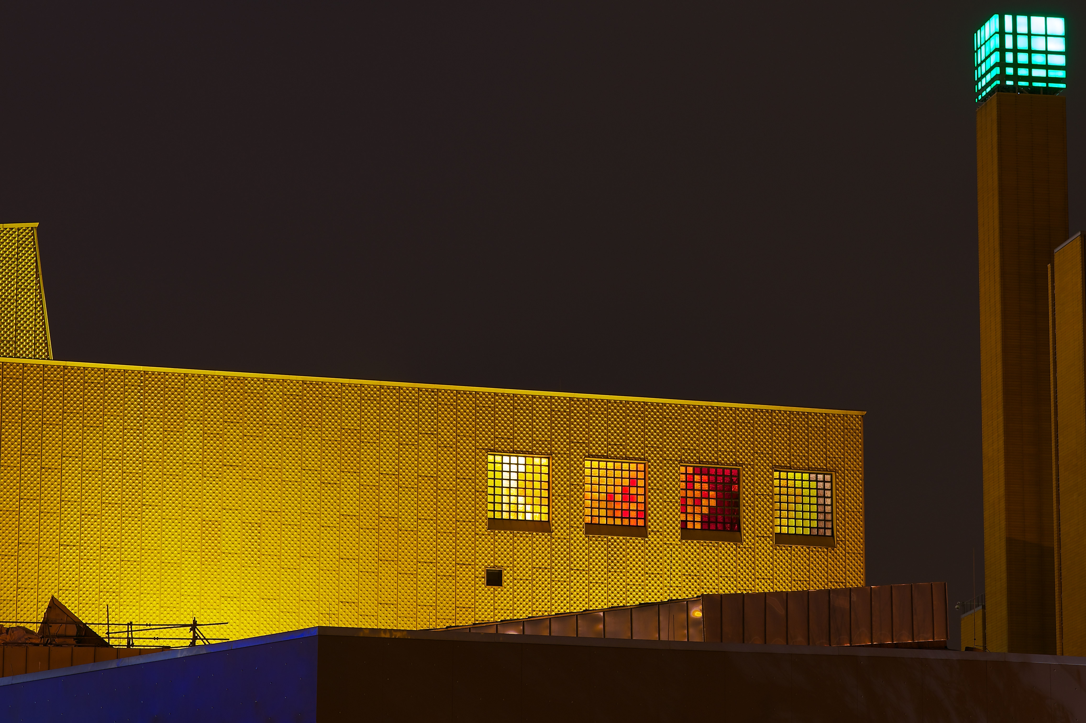 The illuminated 'windows' at the south-west end of the facade of the Staatsbibliothek zu Berlin at night. The glass panels serve only an aesthetic function, as they do not let any light into the building, but are illuminated at night to glow to the outside. Visible in the Background is the chimney of the Debis Building of the Postdamer Platz ensemble.